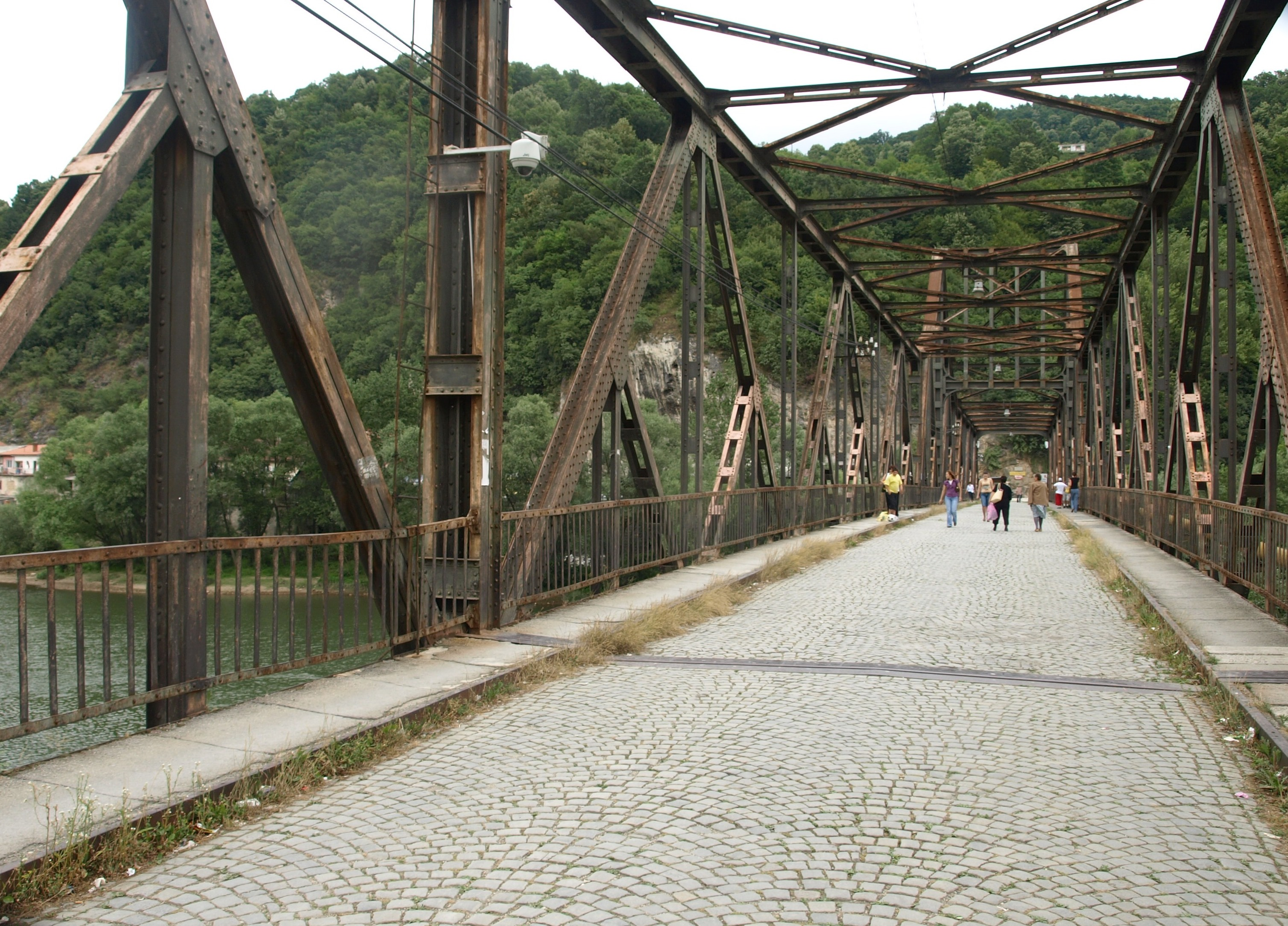 Border crossing on River Drina in Zvornik (Bosnia and Herzegovina). Hornjoserbsce: Namjezny móst po Drini w Zvorniku (Bosniska a Hercegowina).